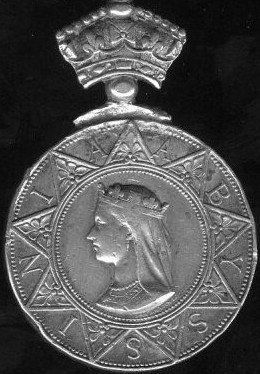 Abyssinian War Medal (1869) obverse